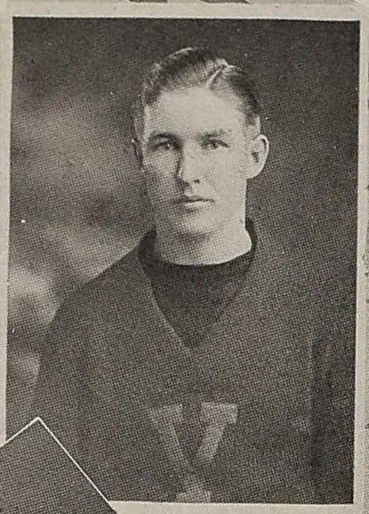 Gil Reese, speedy running back for Vanderbilt University